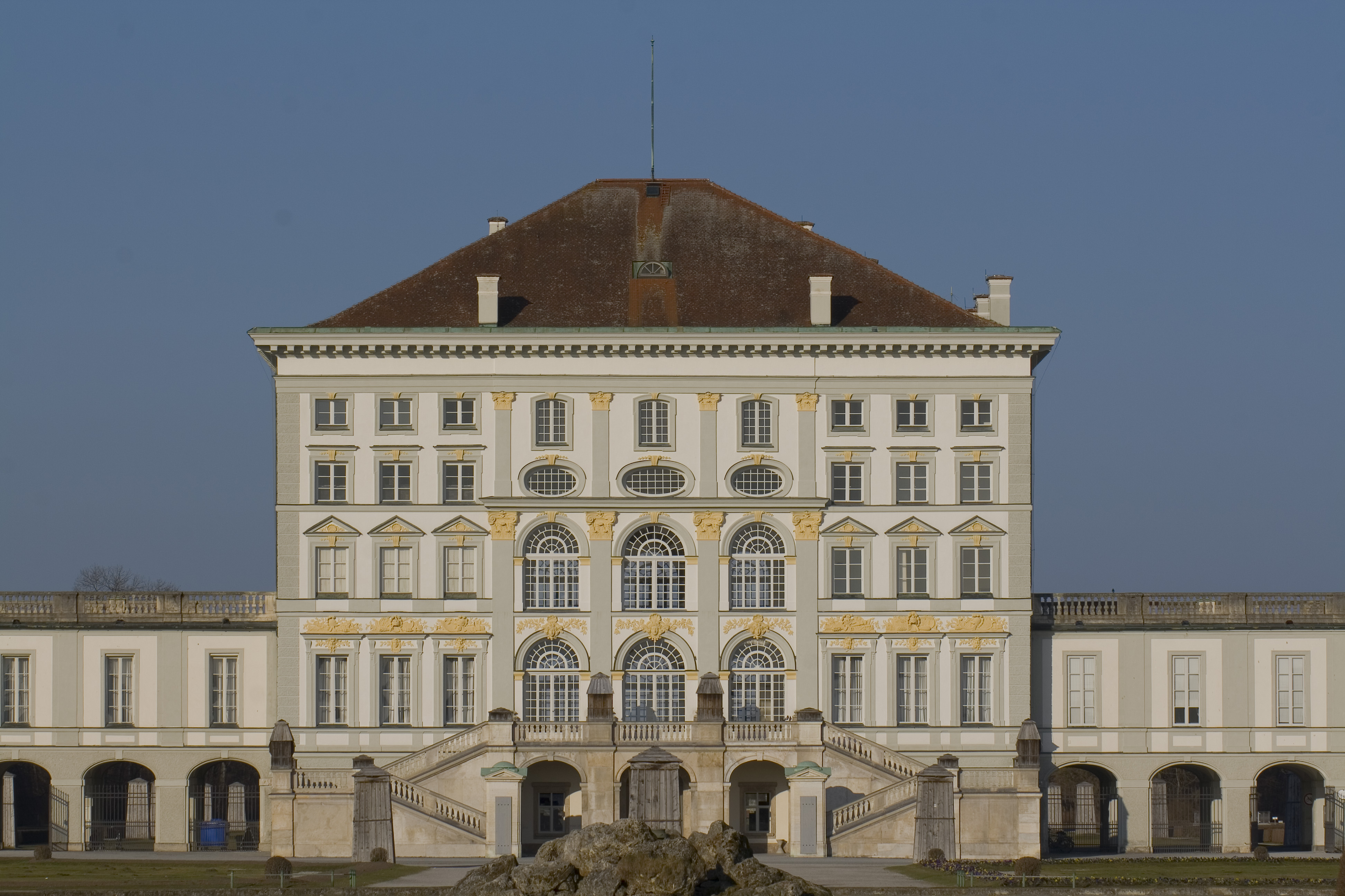 Exterior of the Nymphenburg Palace, Munich, Germany